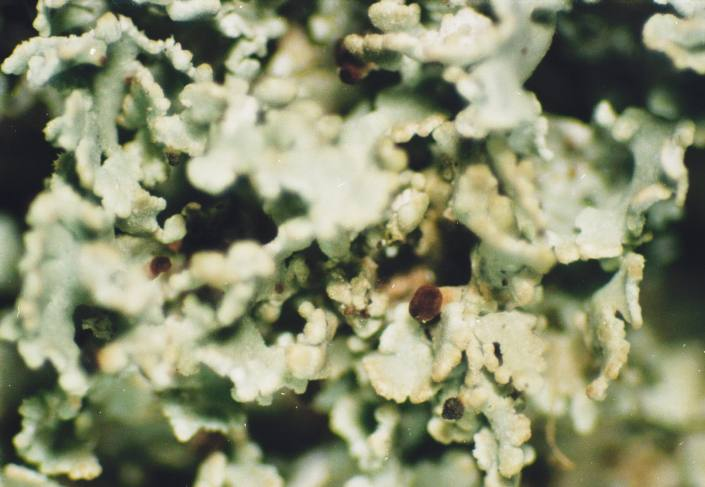 Cladonia caespiticia (Pers.) Flörke, 1887 Photograph of a herbarium specimen taken through a dissecting microscope (x30) showing several apothecia on the squamules. C. caespiticia was growing on a very rotten log at Soldiers Delight Natural Environment Area in a wooded area south of Dolfield Road, Baltimore County, Maryland, USA (N 39o24.146', W 76o49.240'); collected and identified by E.C. Uebel (No. U-457, 23 Jun 2003).